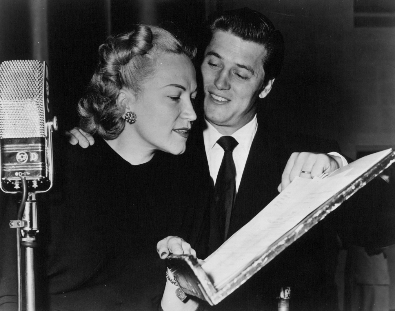 Photo of Dorothy Kirsten and Gordon MacRae performing on the radio program The Railroad Hour. The item has no copyright markings on it as can be seen in the links above.